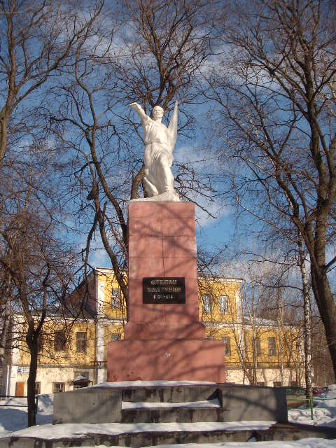 Monument to Stepan Khalturina in Kirov, Kirov region